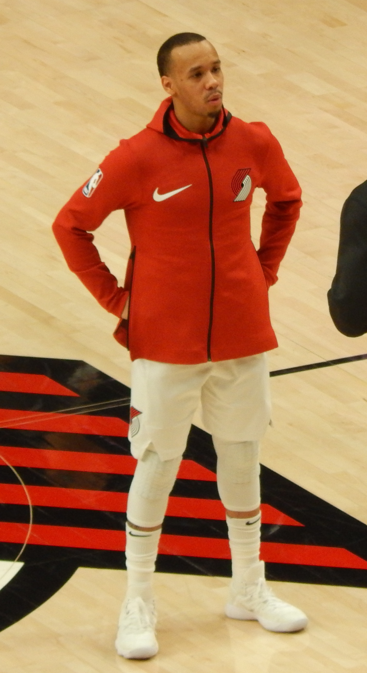 Shabazz Napier #6 of the Portland Trail Blazers against the New York Knicks on March 6, 2018 at Moda Center in Portland, Oregon.